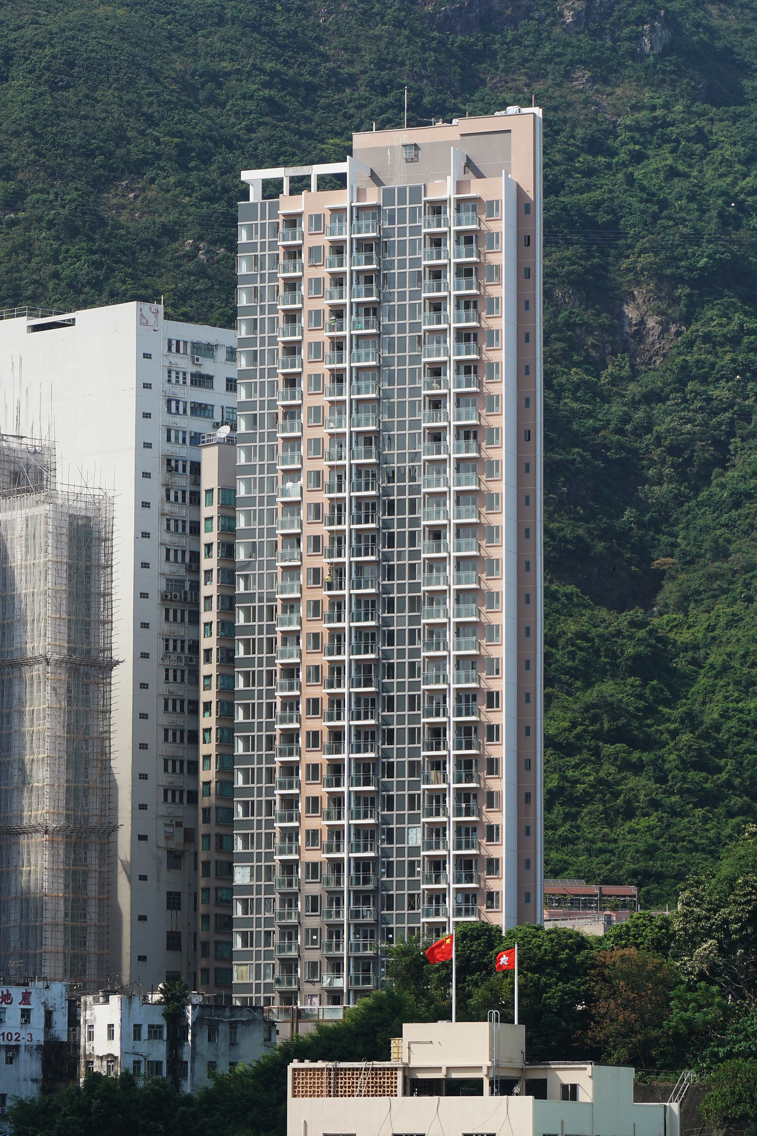 South Coast in Tin Wan, Hong Kong.